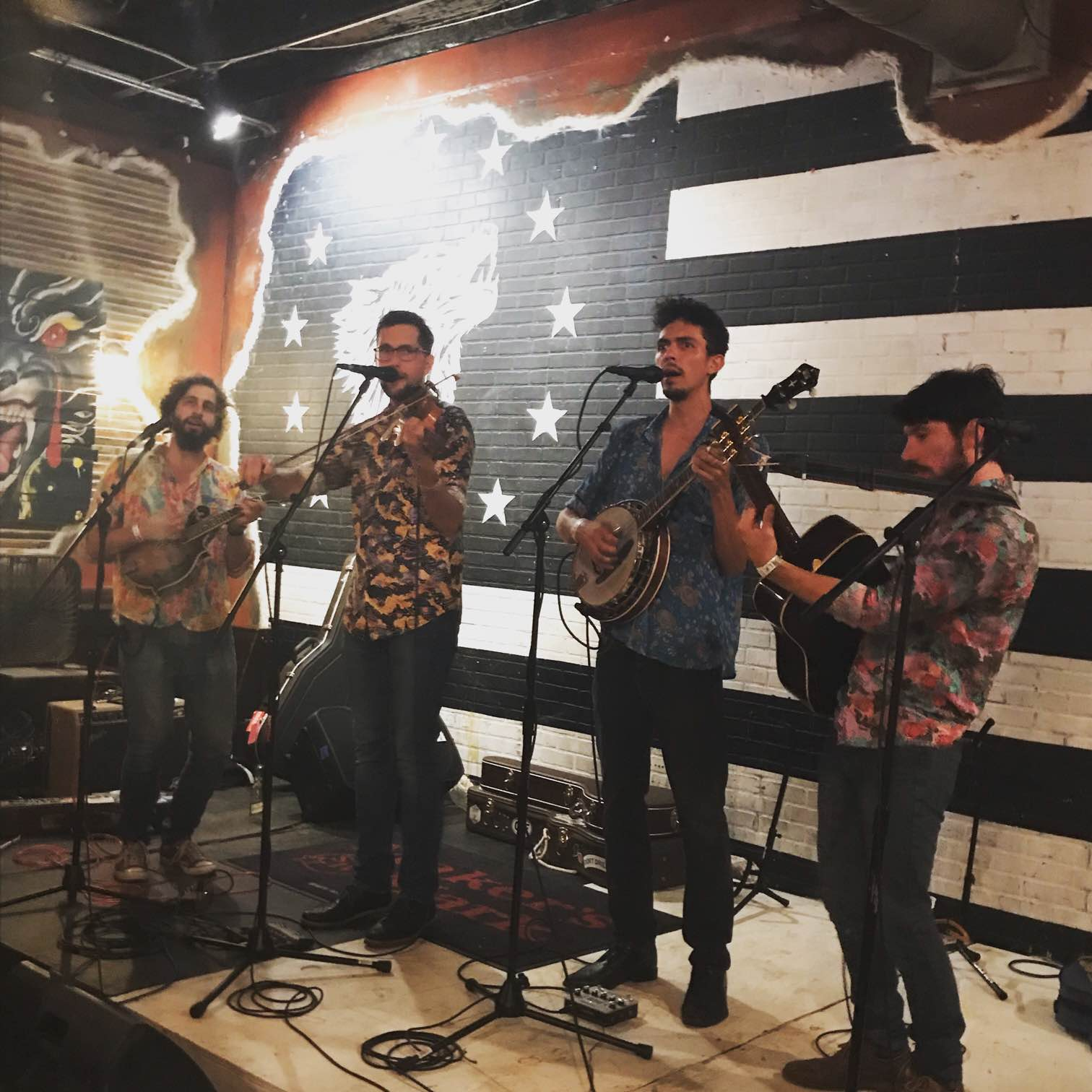 Latin grass group Che Apalache performs at The Crying Wolf in Nashville, September 12, 2019 during AmericanaFest at the 2nd Annual Queer Roots showcase